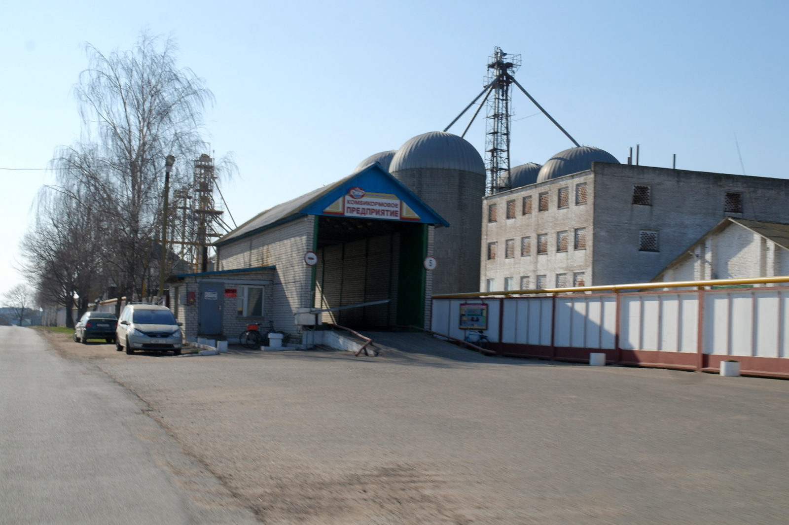 Agrocombinat "Snoŭ", agro-town Snoŭ